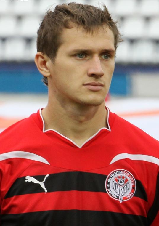 Aleksandr Kolomeytsev with FC Amkar Perm.